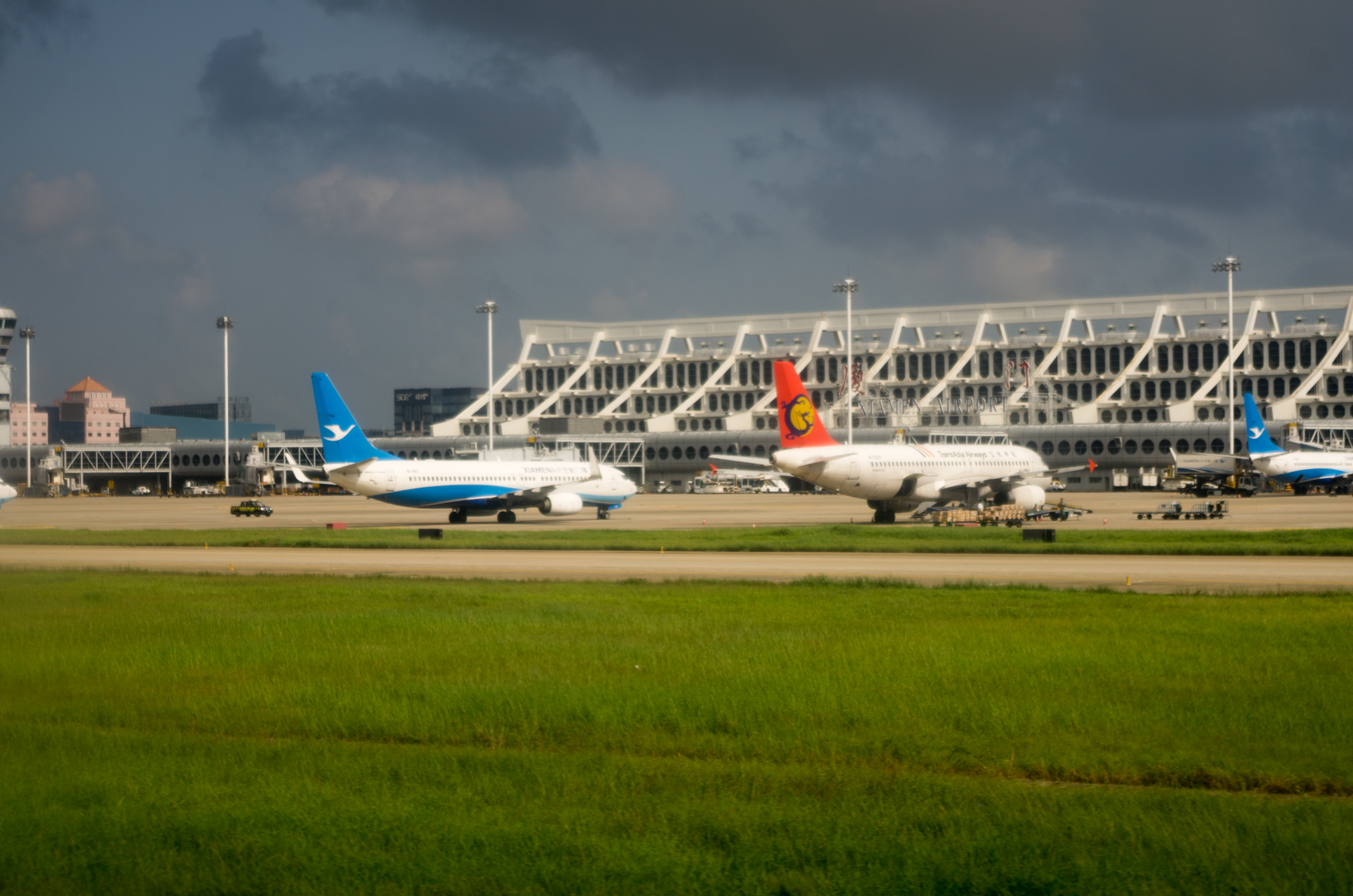 A Xiamen Airlines and Trans-Asia Airways plane parked at Xiamen Gaoqi Airport